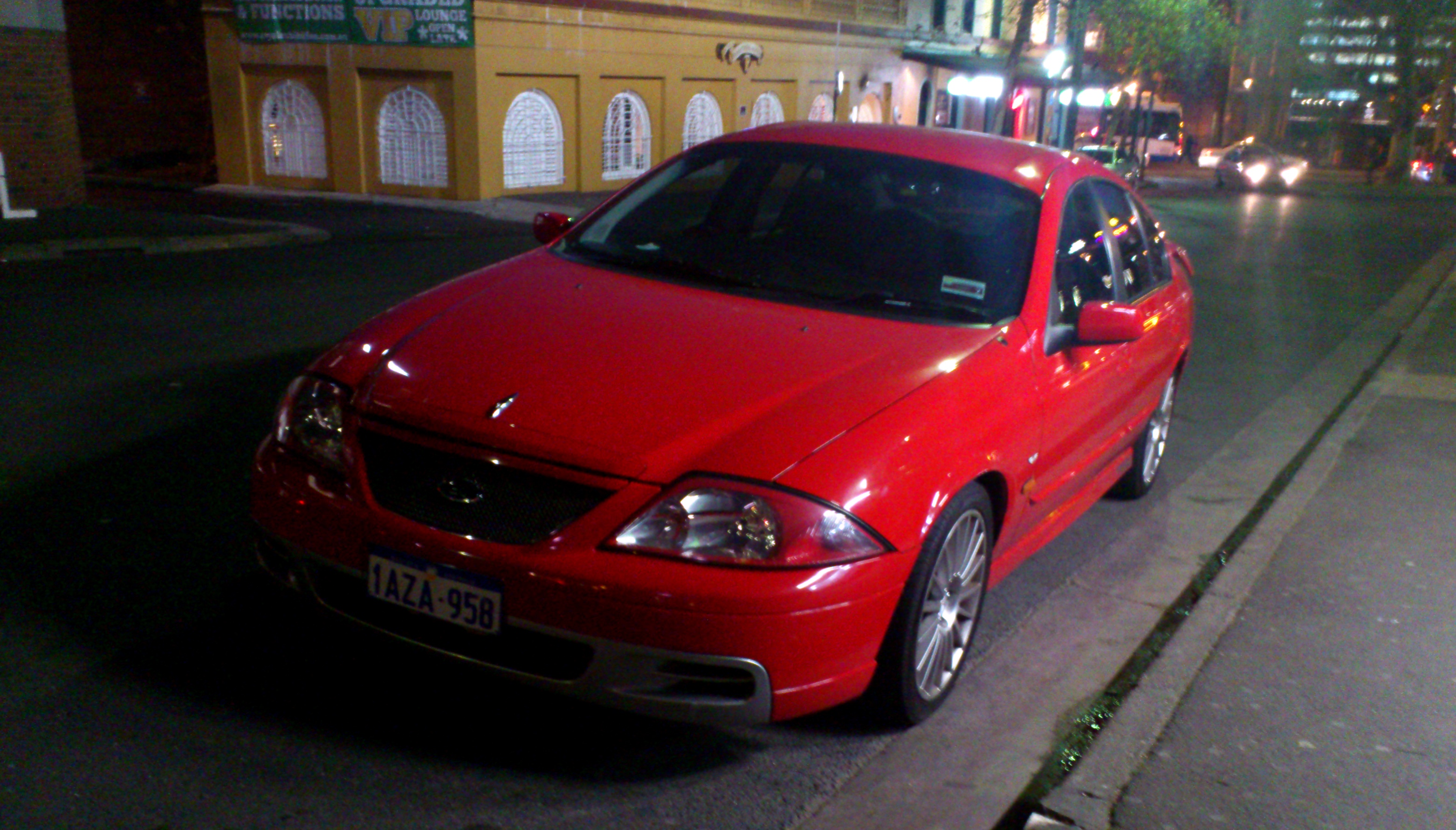 Tickford TE50